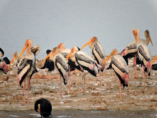 Painted stork ,Motemajra pond,near Mohali, Punjab, India